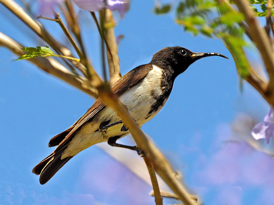 Male Black Honeyeater on a Jacaranda